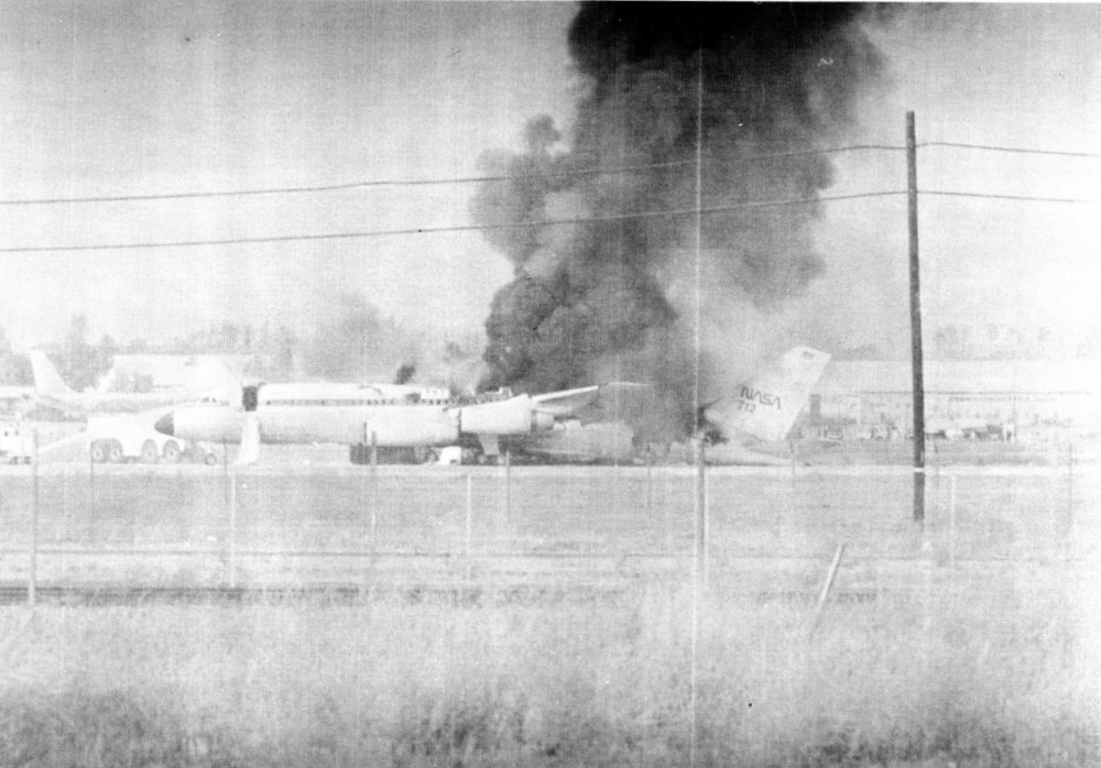 The N712NA suffered a blown tire during takeoff at a speed of around 140 knots (Vr=154 kts). Takeoff was rejected immediately. The captain tried to clear the runway but brought the aircraft to a stop when hearing about a fire on the right hand side.